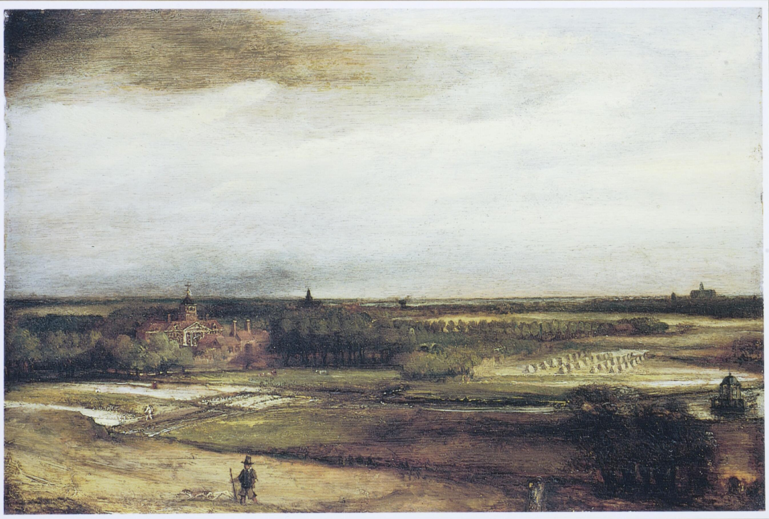 This image is available from the Netherlands Institute for Art Historyunder digital ID 108544. This tag does not indicate the copyright status of the attached work. A normal copyright tag is still required. See Commons:Licensing.